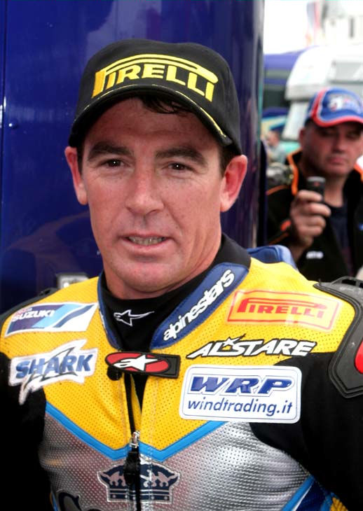 Troy Corser, Silverstone Circuit, May 29 2005